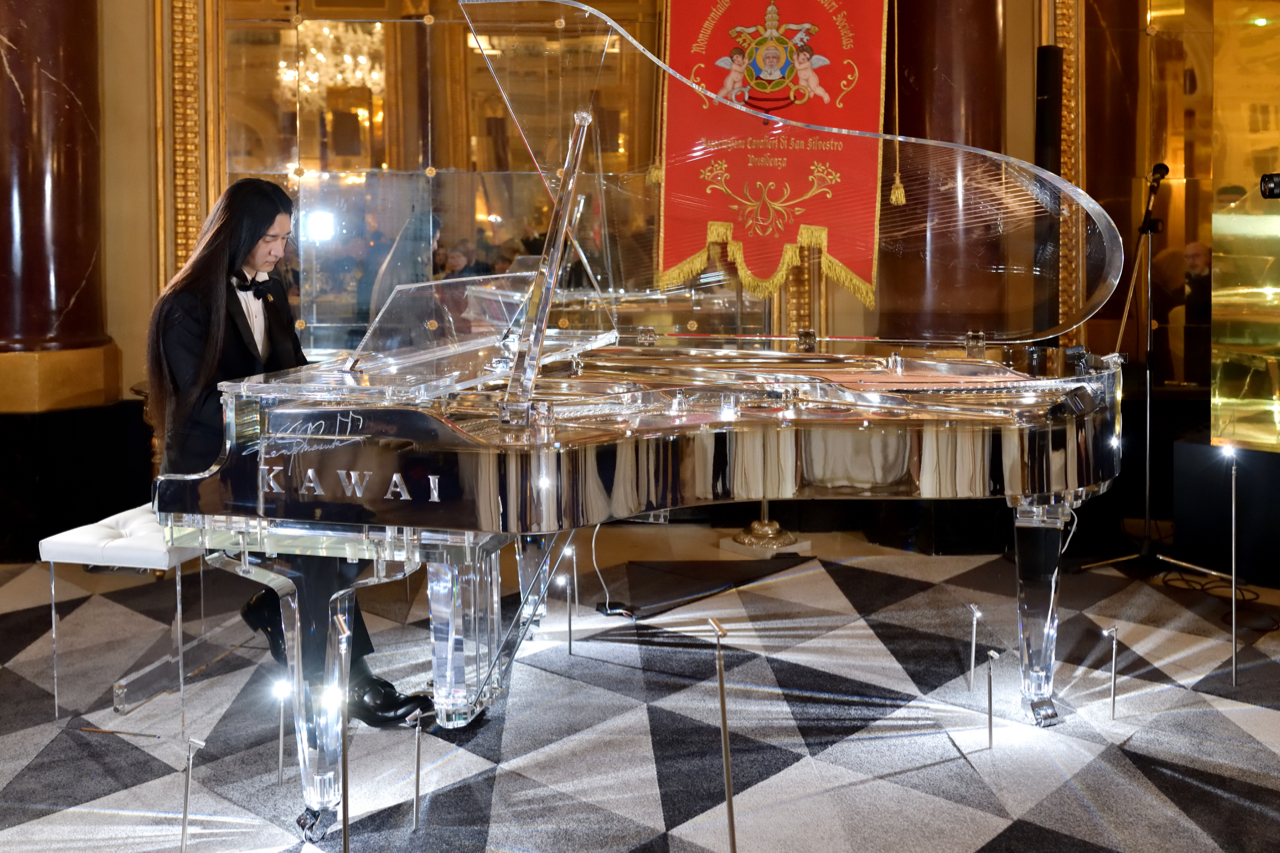 Kento Masuda performs his Signature Model of KAWAI Piano CR-1M